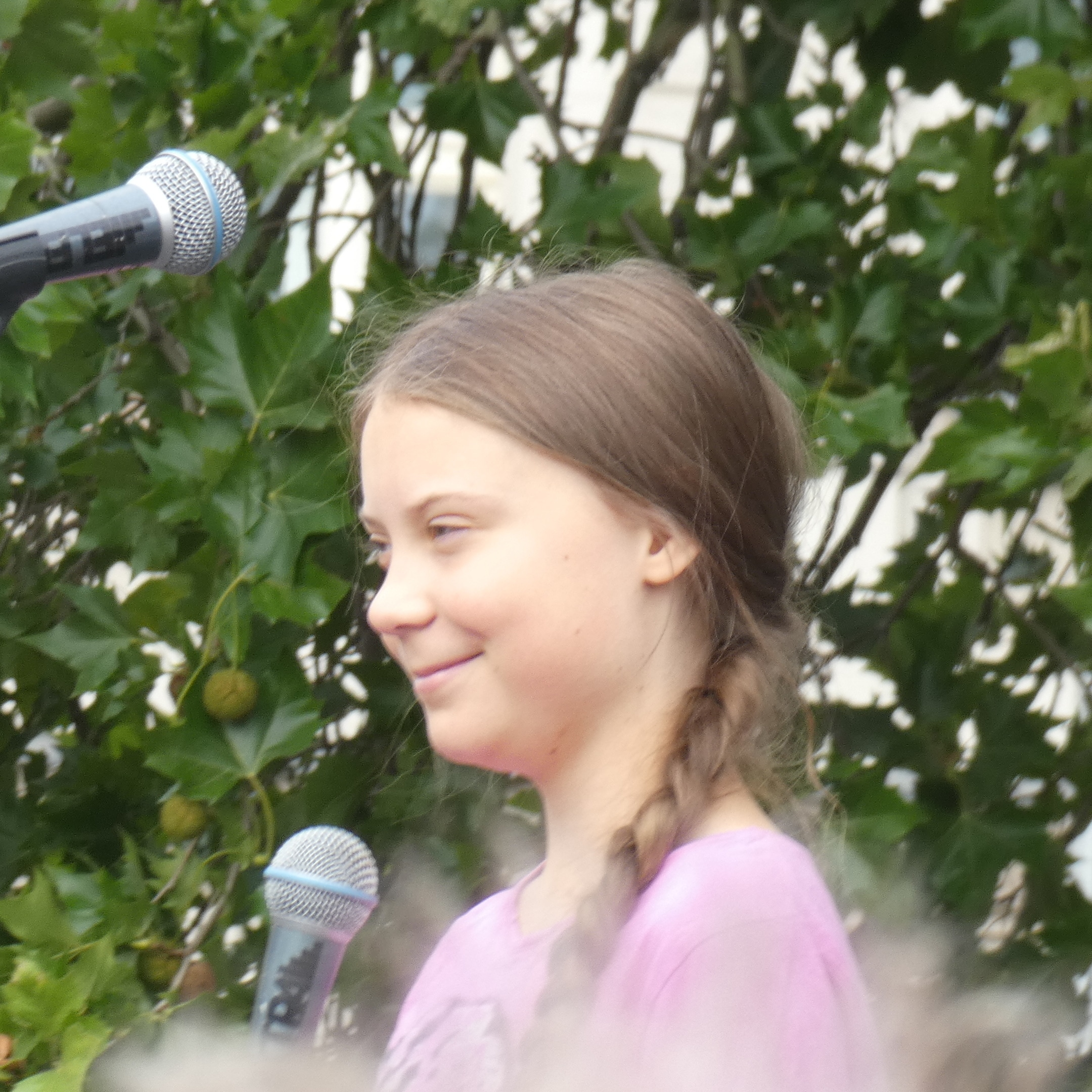 School strike for climate in Berlin 2019-07-19